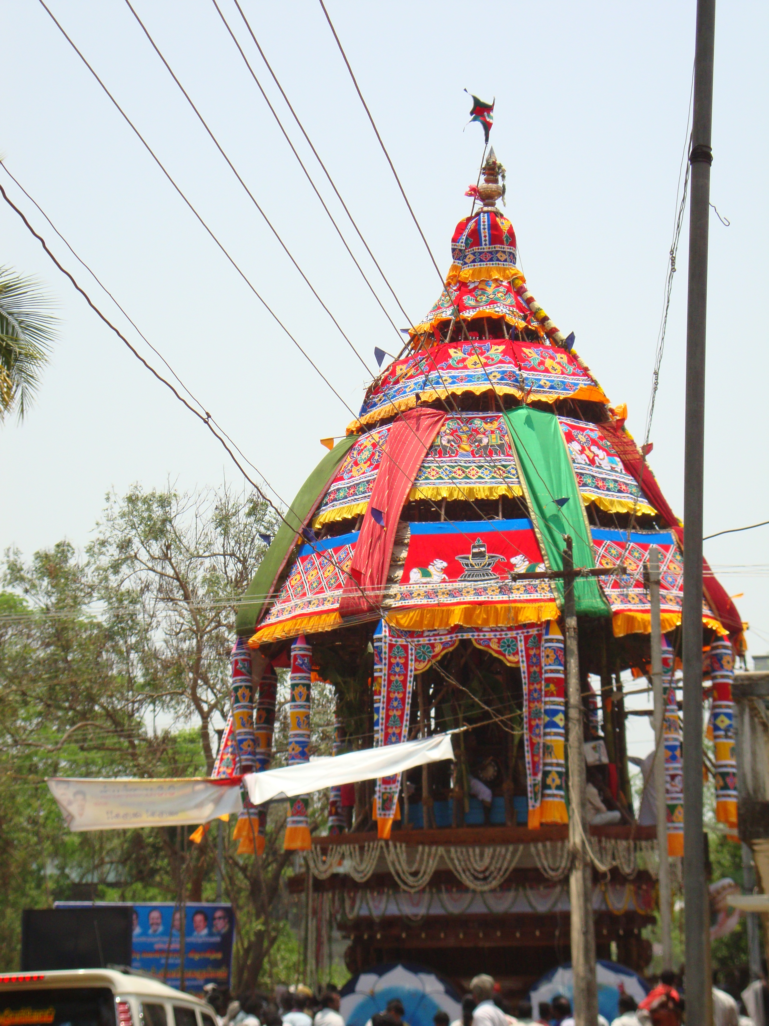 This is the main chariot carrying Lord Shiva, Goddess Bhrama vithaayambal around the temple.